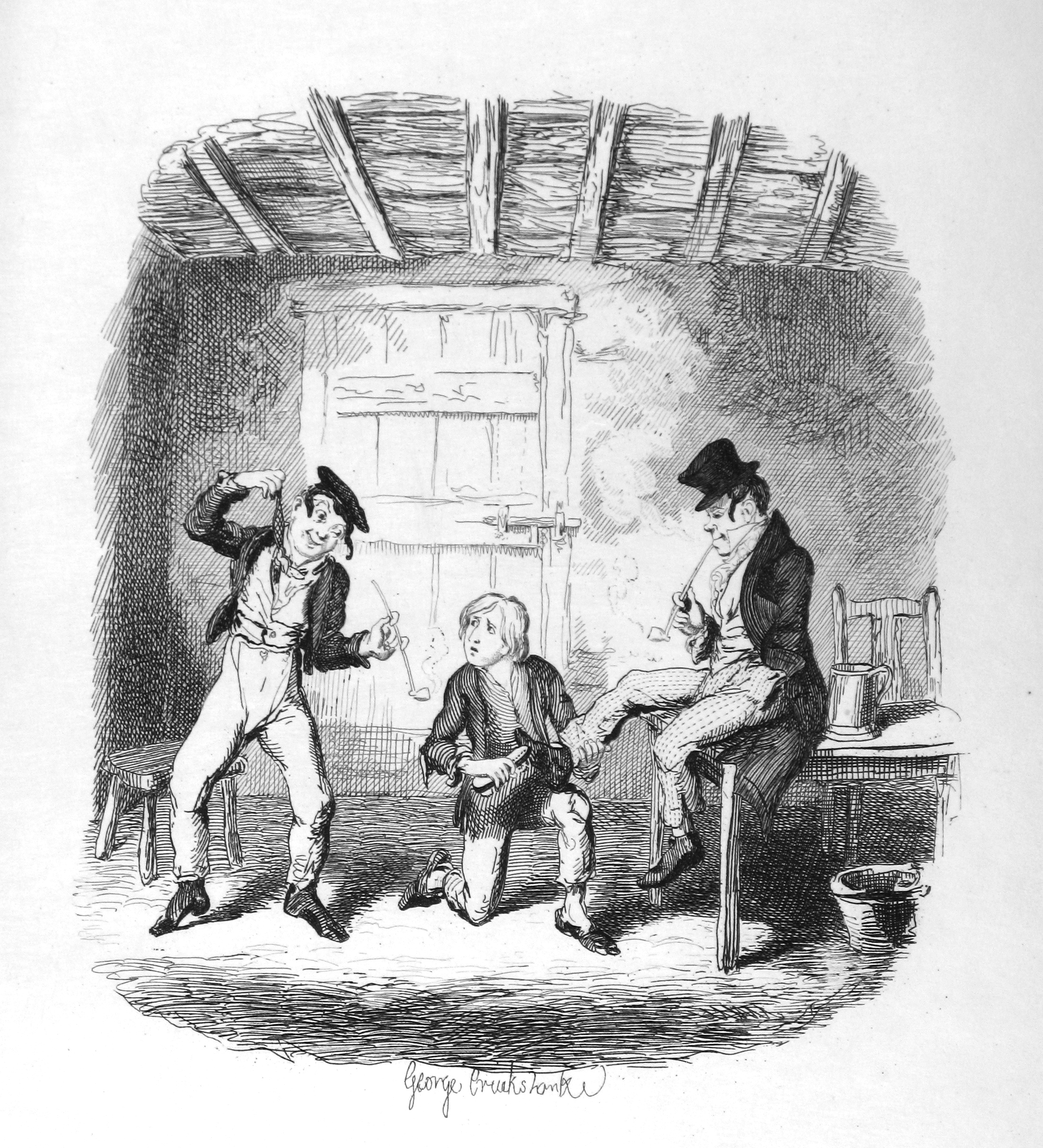 A photograph of an engraving in The Writings of Charles Dickens volume 4, Oliver Twist, titled "Master Bates explains a Professional Technicality".